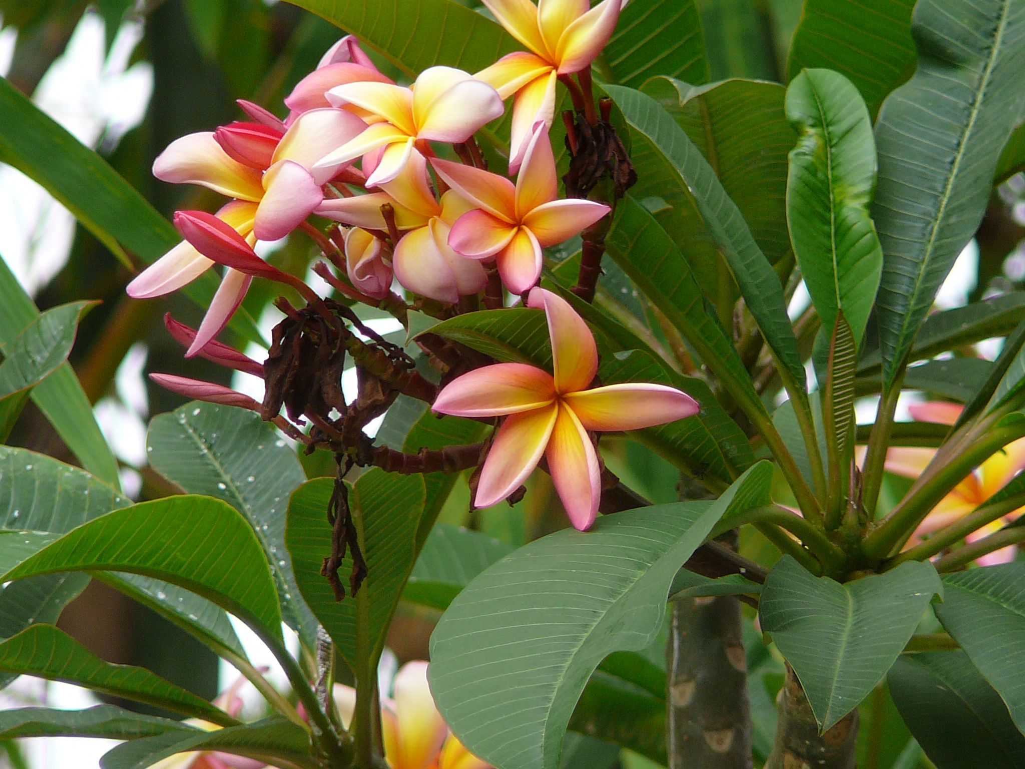 Plumeria